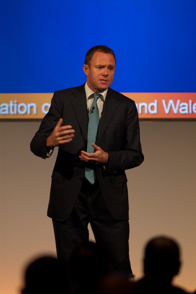 Nick Herbert, policing minister, closes the Chief Superintendents conference on 16 September 2010.